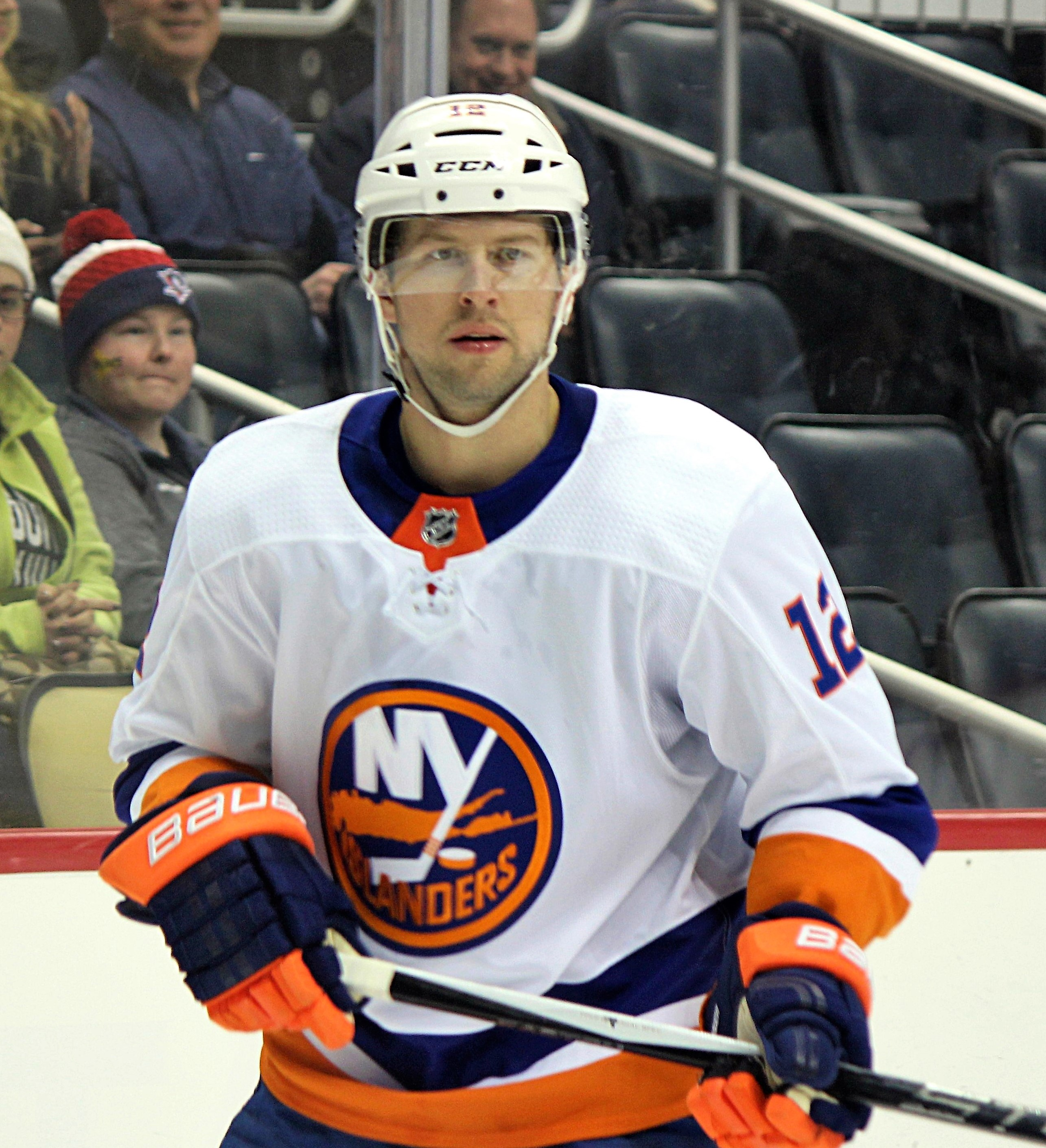 New York Islanders forward Josh Bailey during a game against the Pittsburgh Penguins, December 7, 2017, at PPG Paints Arena in Pittsburgh, PA.